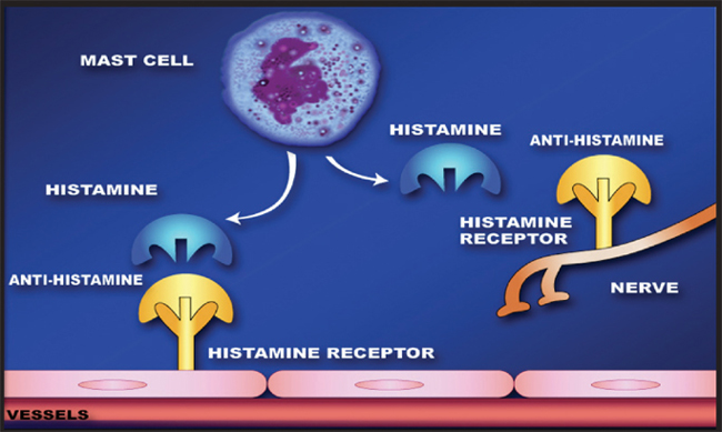 How antihistamines work